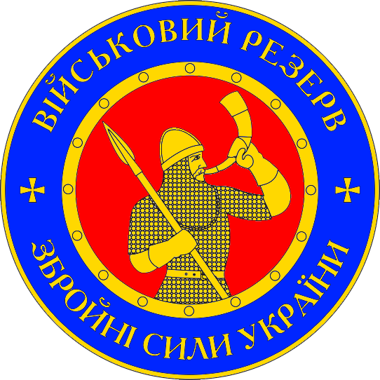 Emblem of the Ukrainian Armed Forces Military Reserve.